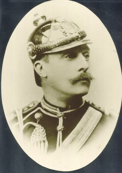 Sixten Sparre around 1889